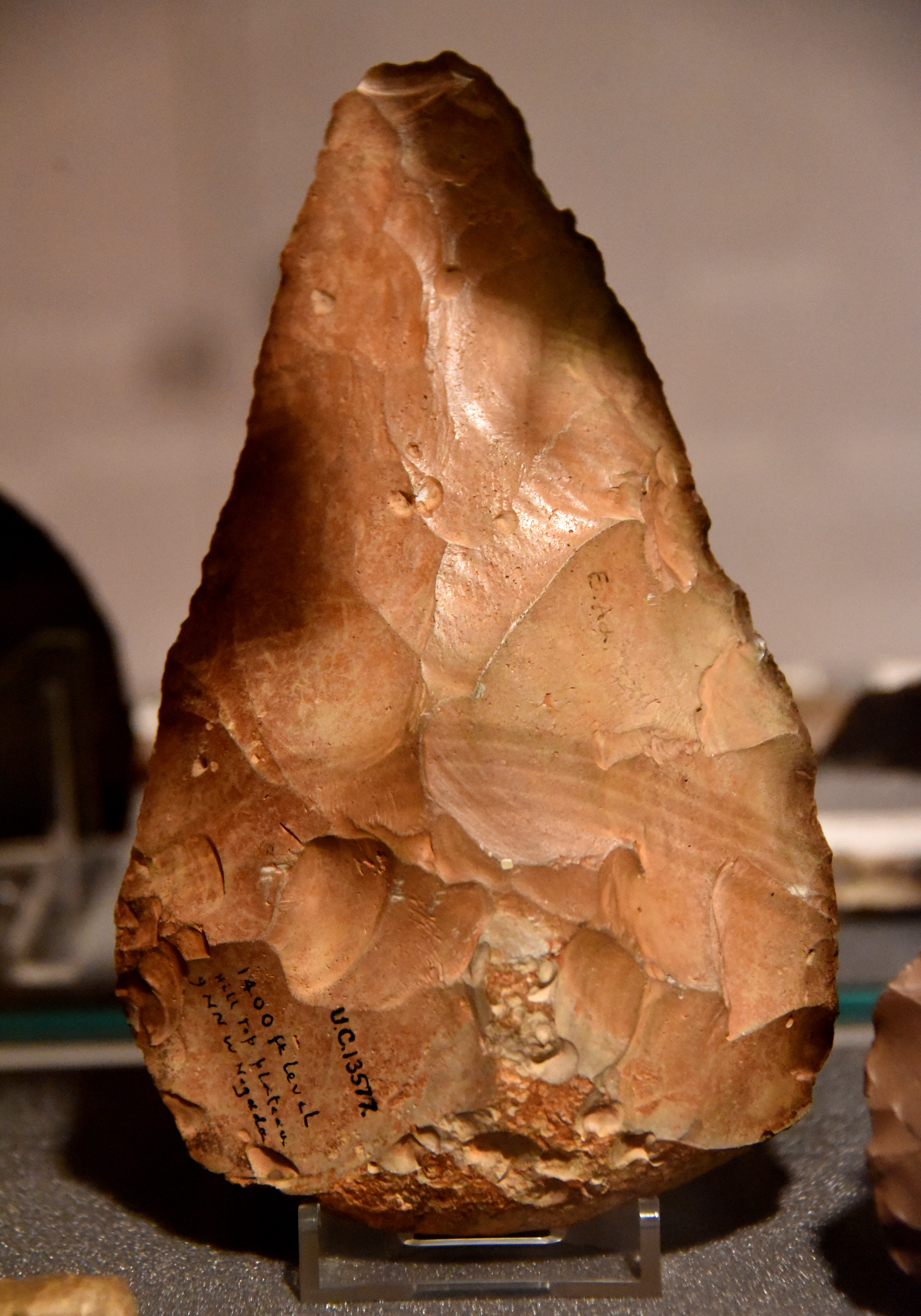 Acheulean hand-axe from Egypt. Note the English words on the left lower part of this axe. Found on a hill-top plateau, 1400 feet above sea level, 9 miles NNW of the city of Naqada, Egypt. Paleolithic. The Petrie Museum of Egyptian Archaeology, London. With thanks to the Petrie Museum of Egyptian Archaeology, UCL.